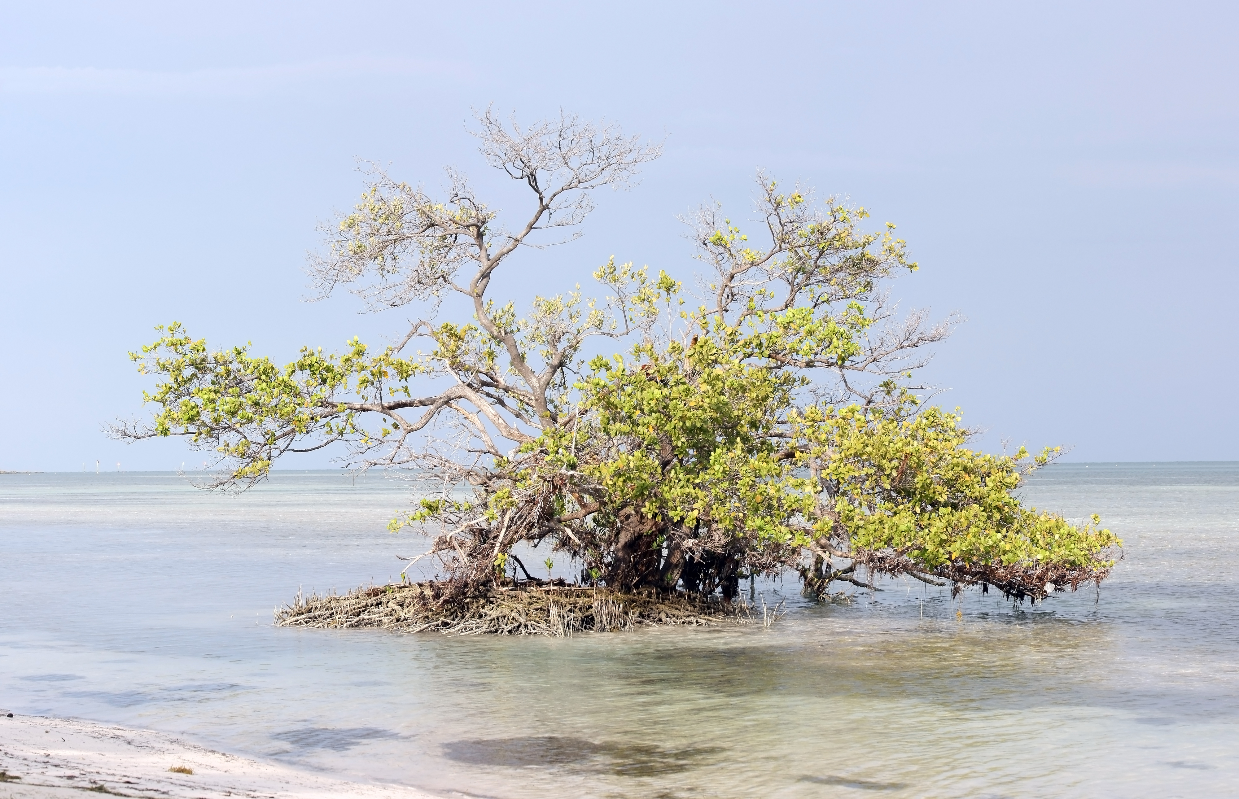 Black mangrove growing in shallow water near Islamorada, Florida.